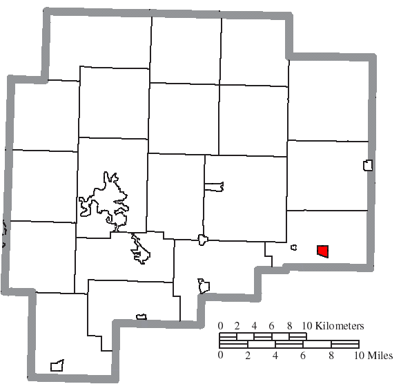 Map of the municipal and township boundaries of Guernsey County, Ohio, United States, as of the 2000 census, with the location of the village of Quaker City highlighted. Township borders are shown only in unincorporated areas in order to differentiate incorporated and unincorporated areas more clearly.